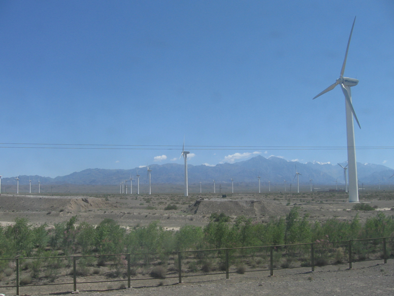 A picture of a Goldwind wind farm outside of Urumqi, China, taken from a Lanzhou-Urumqi train.